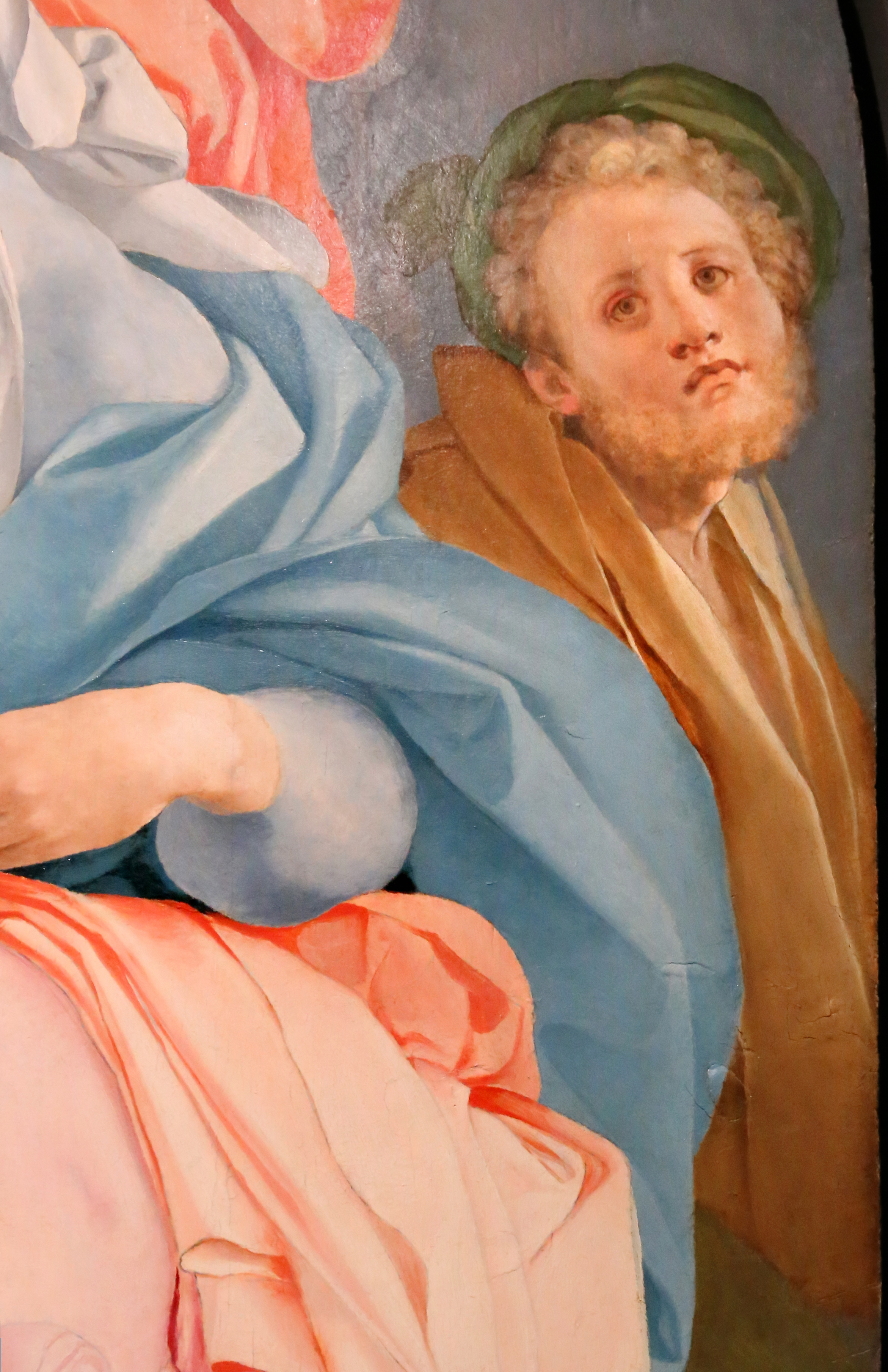 Descent from the Cross by Pontormo